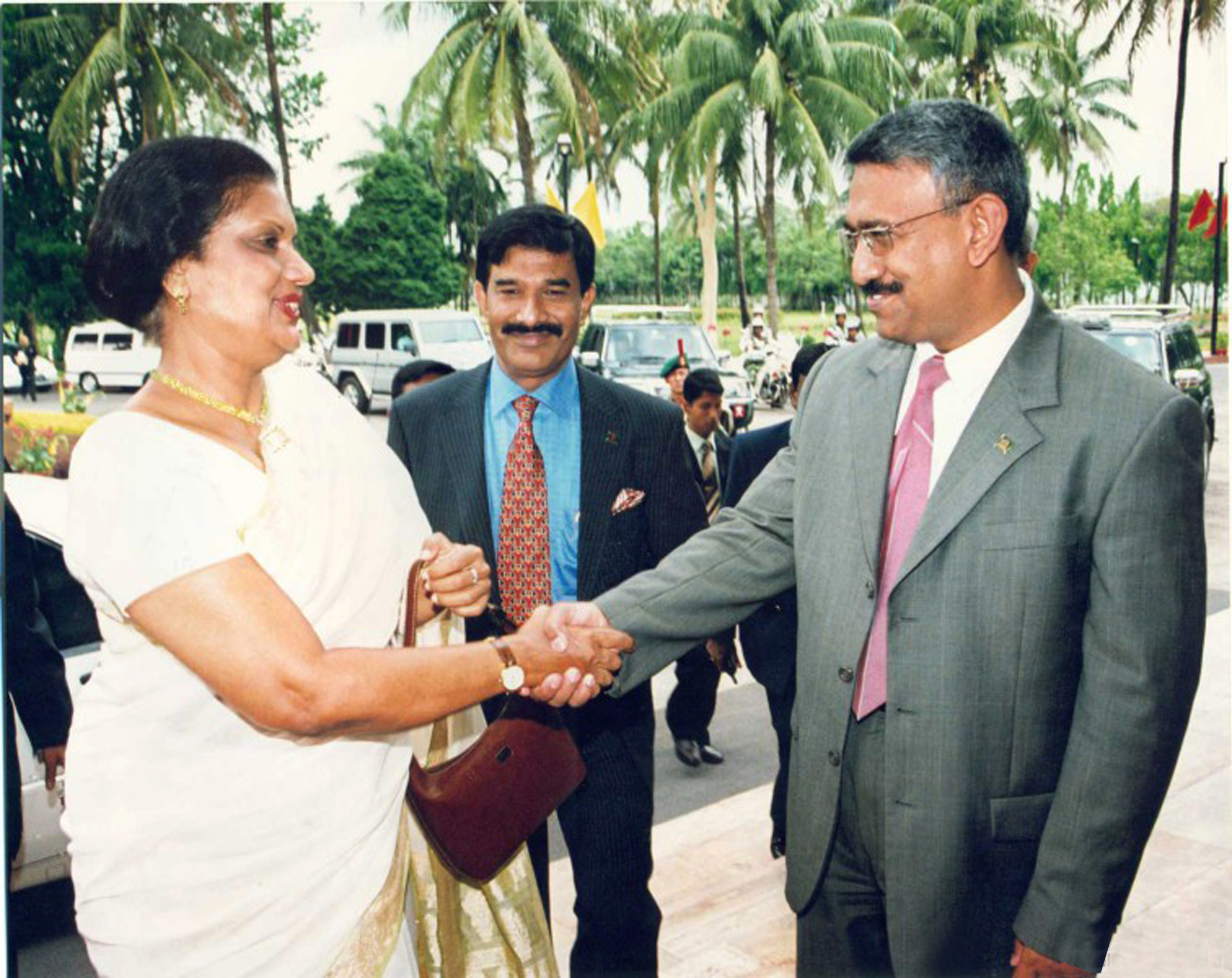 Mohammad Mosaddak Ali met with Sri Lankan President Chandrika Kumaratunga at the Prime Minister's Office in Dhaka, Bangladesh on April 19 in 2003.